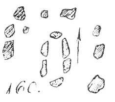 Outline of the dolmen Tangeln 7, Saxony-Anhalt